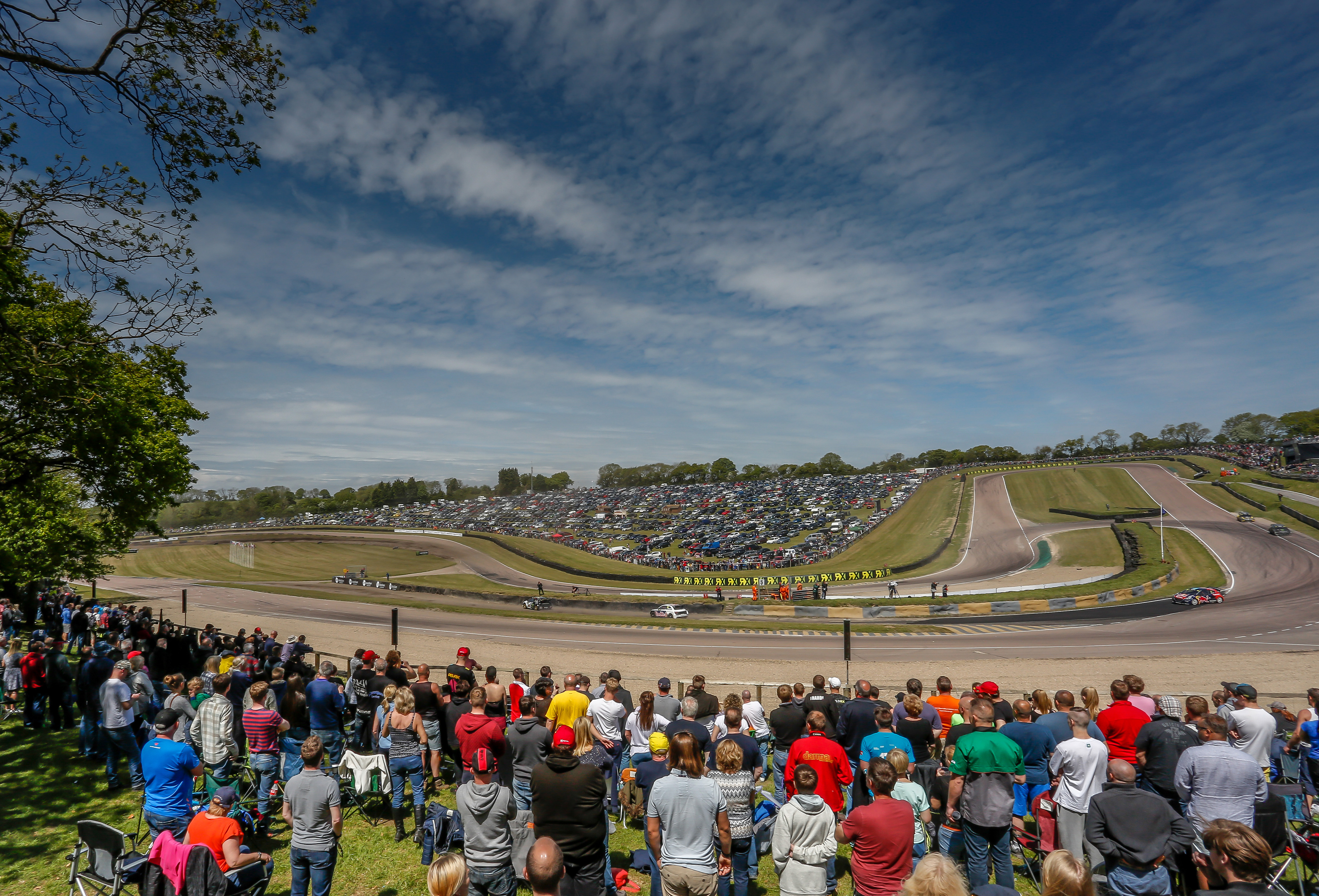 2015 FIA World Rallycross Championship / Round 04, Lydden Hill, GB / May 23-24, 2015 // Worldwide Copyright: Tony Welam/EKS/McKlein